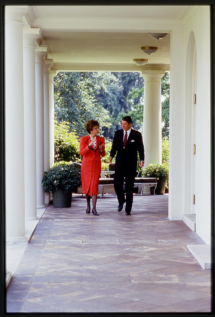 President Ronald Reagan with Republican Senator Paula Hawkins to support her bid for reelection